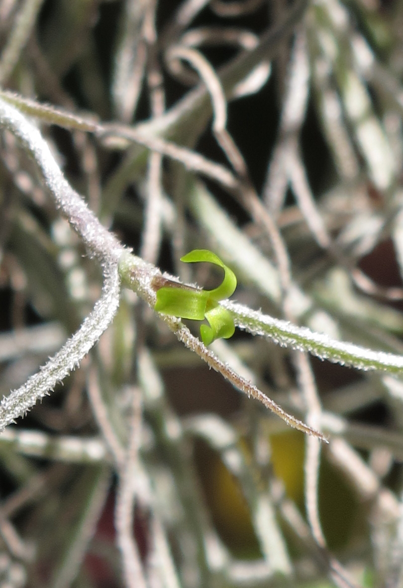 cultivated, private garden, South Miami, Florida, USA. The Spanish Moss that is neither Spanish nor a moss. Note the silvery, water-absorbing scales on the leaves.